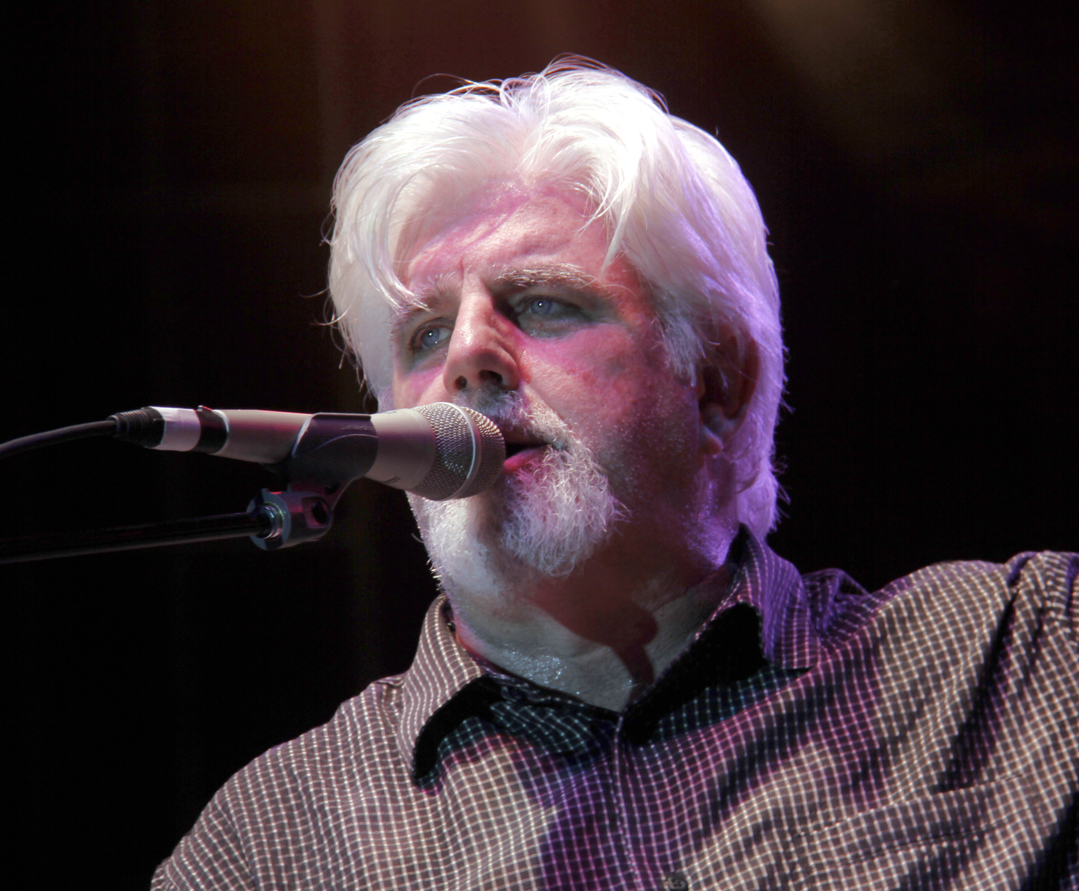 Michael McDonald is a five-time Grammy Award winning American singer and songwriter. McDonald is known for a soulful singing style, with a distinctive husky-sounding voice. Before going solo, he did back-up vocals with Steely Dan, and was a member of the Doobie Brothers (1976–1981)—bringing them their most successful period. Source: Wikipedia 2011